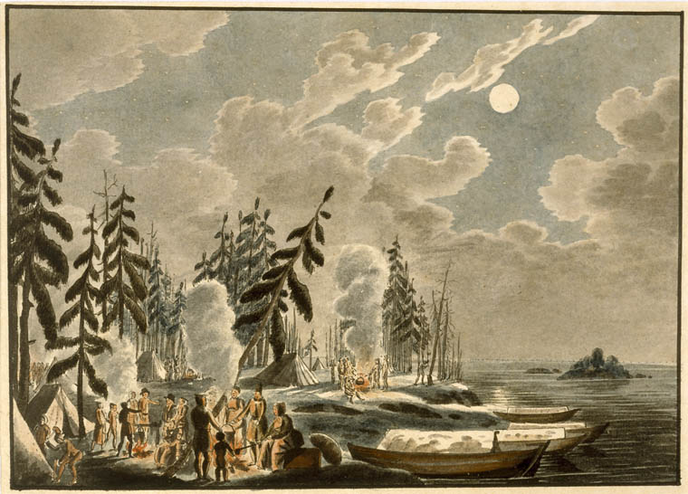 Swiss immigrants camped on the shores of Lake Winnipeg in the autumn of 1821 after their boat was wrecked while en route to Red River